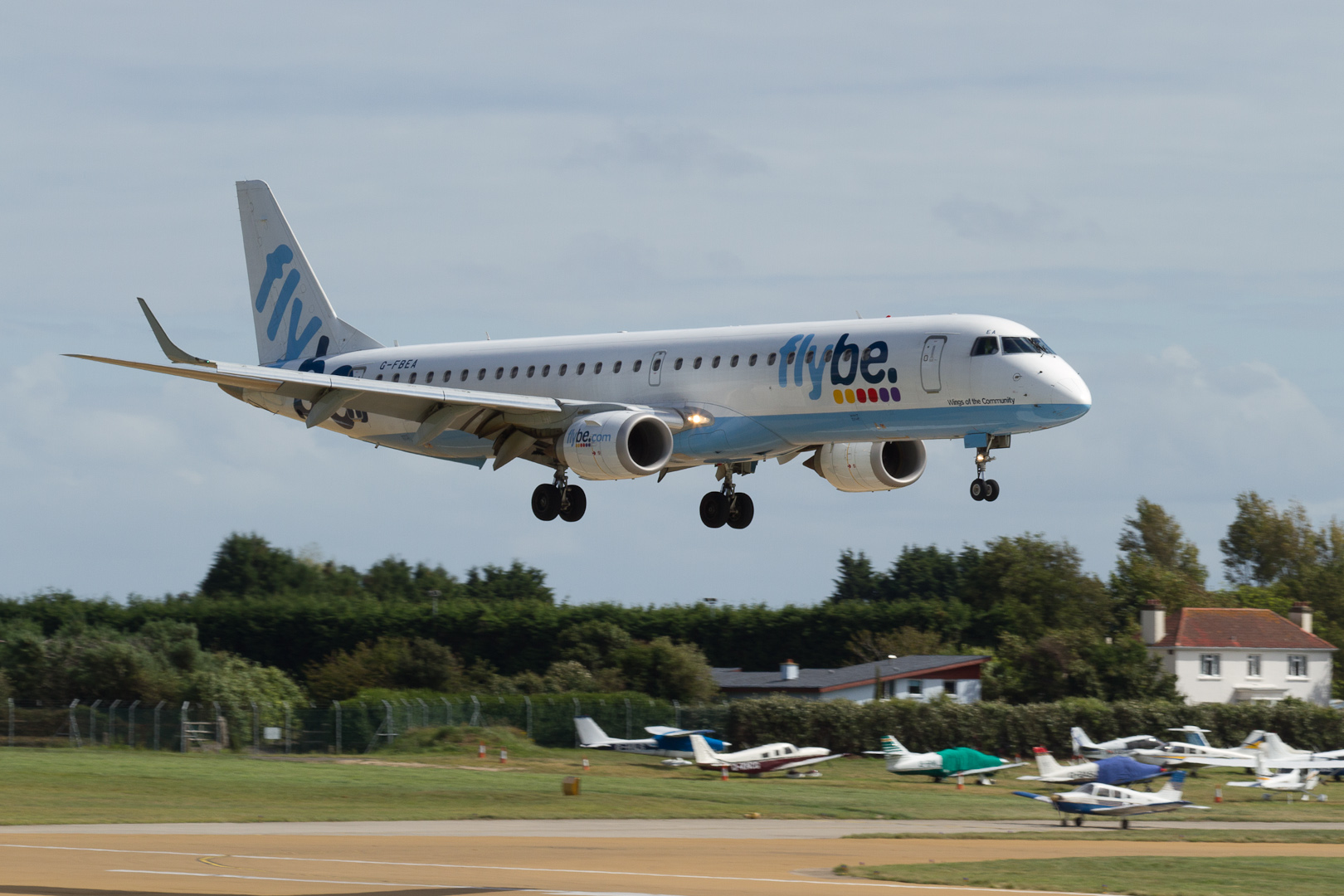 Flybe Embraer jet landing at Jersey Airport on 27 August 2011.